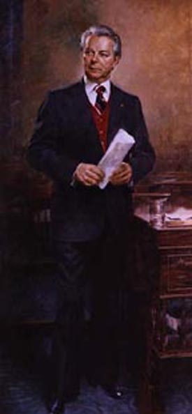 Portrait of then-Senate Majority Leader Robert Byrd (D-WV)